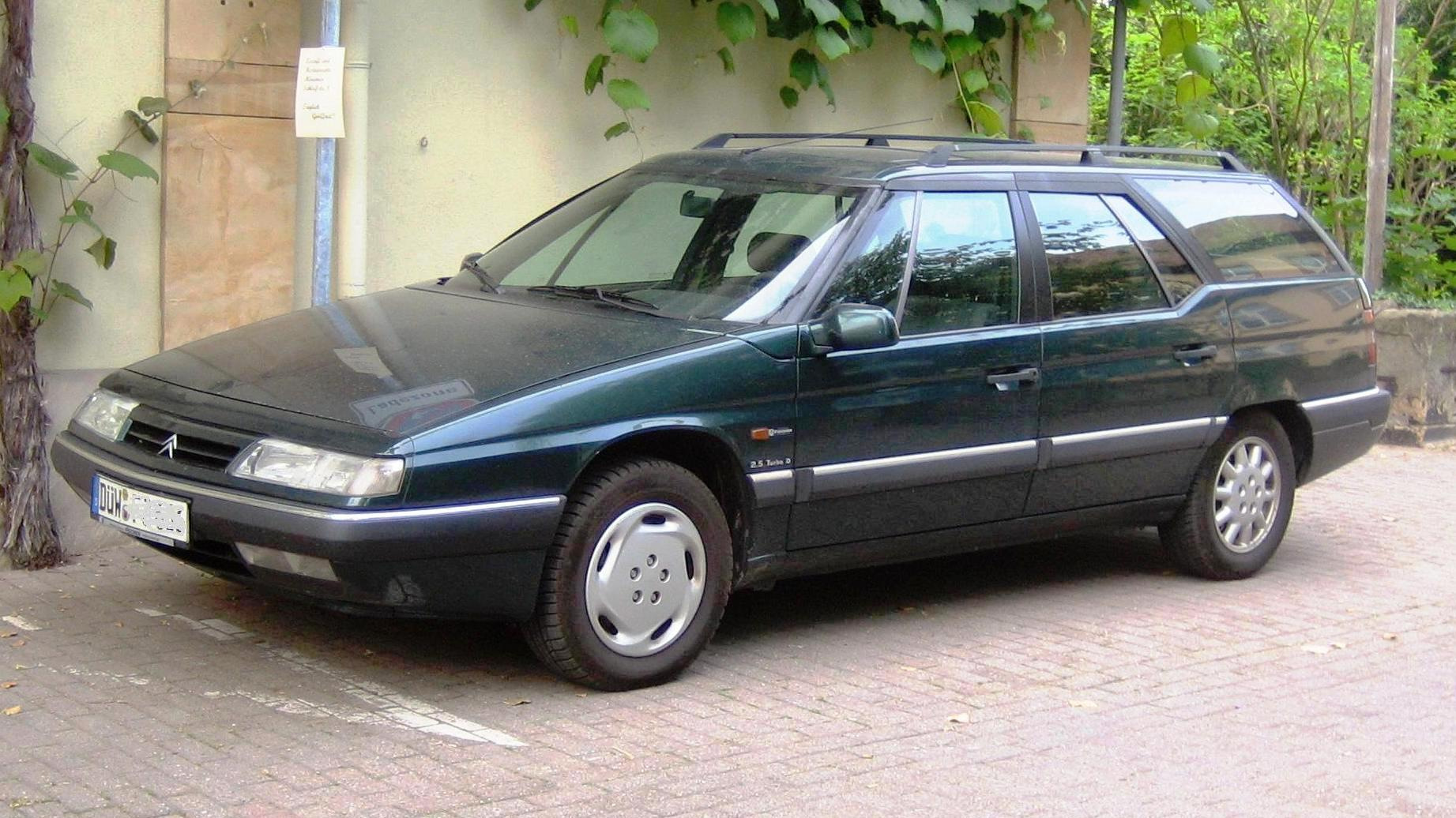 Citroen XM Break in Deidesheim